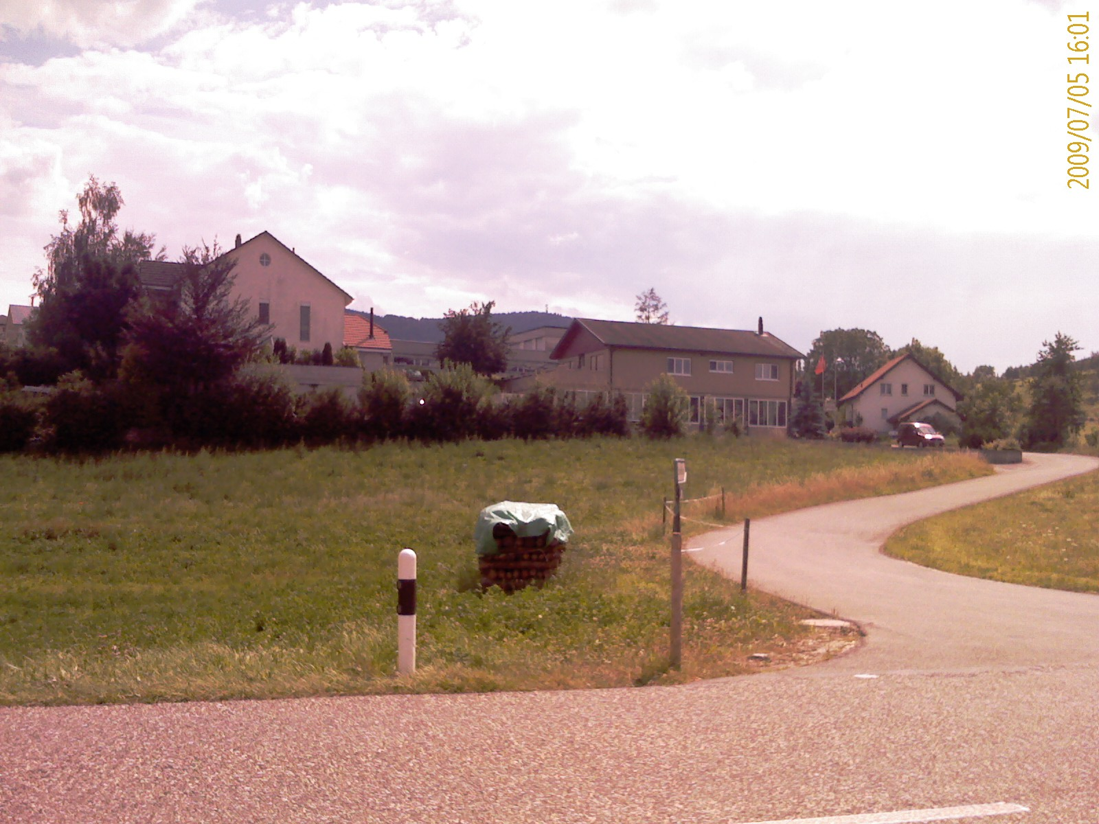 Ueken, canton of Aargau, SwitzerlandEsperanto: Ueken, Kantono Argovio, Svislando